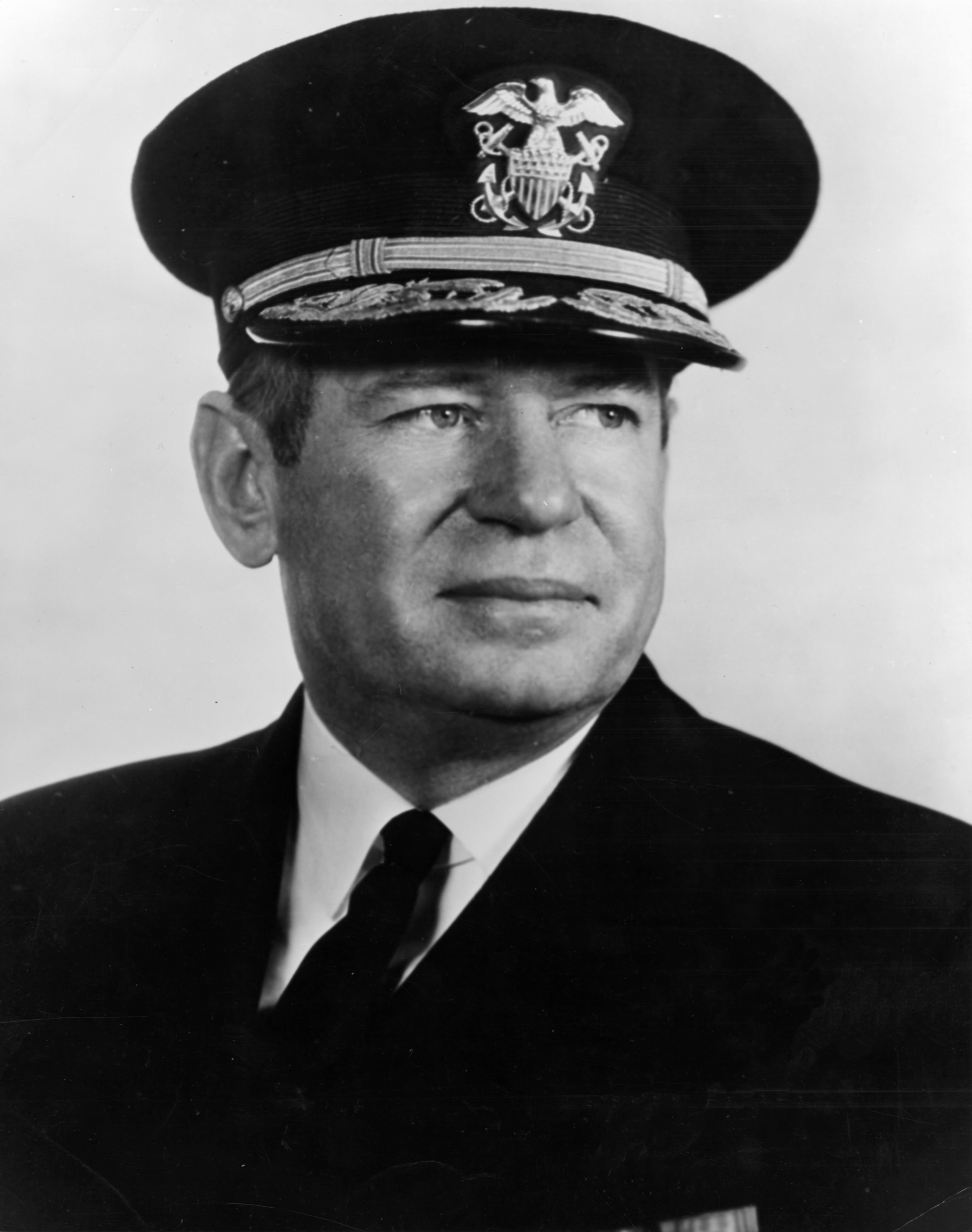 Vice Admiral Howard L. Vickery while vice chairman of the U.S. Maritime Commission